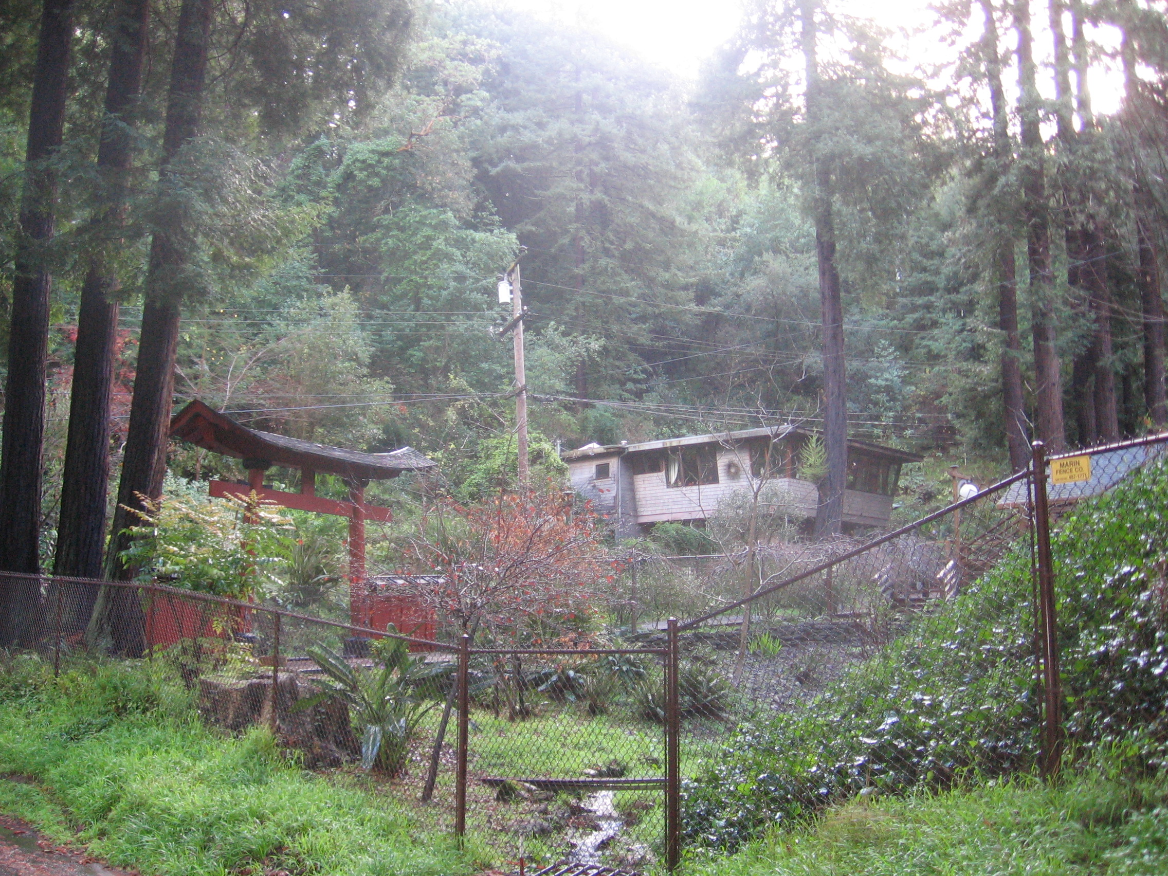 Street Scene in Blithedale Canyon, Mill Valley, California Taken by me December 2007 Street Scene in Blithedale Canyon, Mill Valley, California Taken by me December 2007